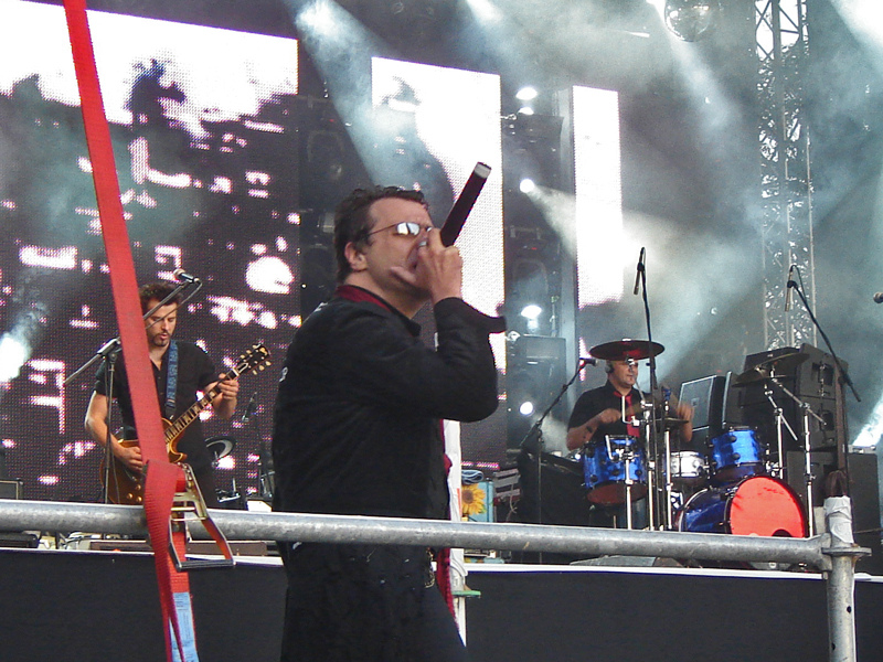 Van Gogh - EXIT07